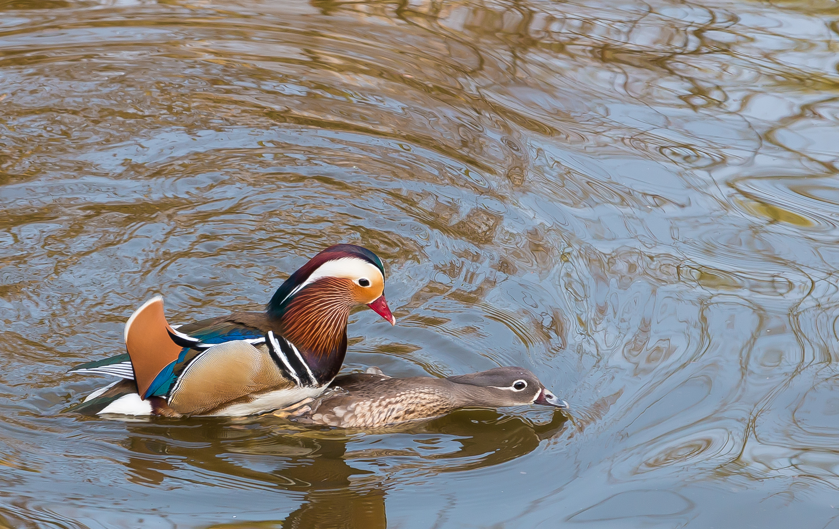 Picture taken at Rotterdam's Blijdorp Zoo, Netherlands. Several couples of mandarin ducks were all engaged in making love in a pond in the zoo.